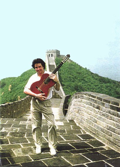 Laucke during the CBC Documentary on the Great Wall Of China. If you use this photo, you must use the correct attribution, which is at least: Michael Laucke on the Great Wall Of China.